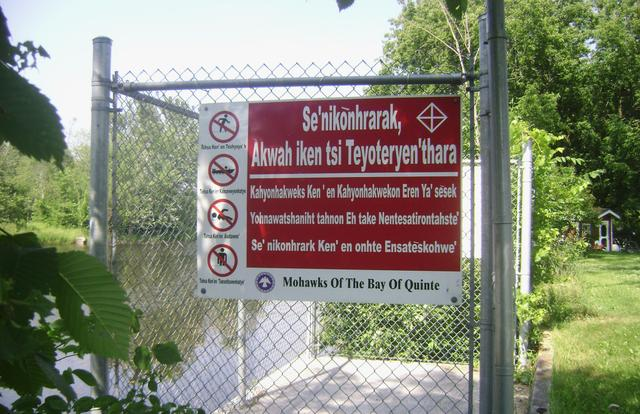 This is a sign in Mohawk warning swimmers of the dangers of boating, fishing, and entering the water.